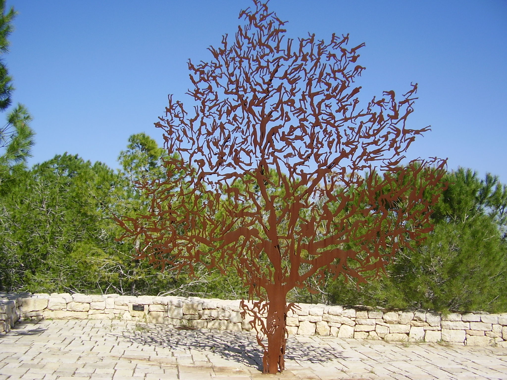 partisans lookout in yad vashem - "For is the tree of the field man" (Deut. 20:19) Zadok Ben-David 2003